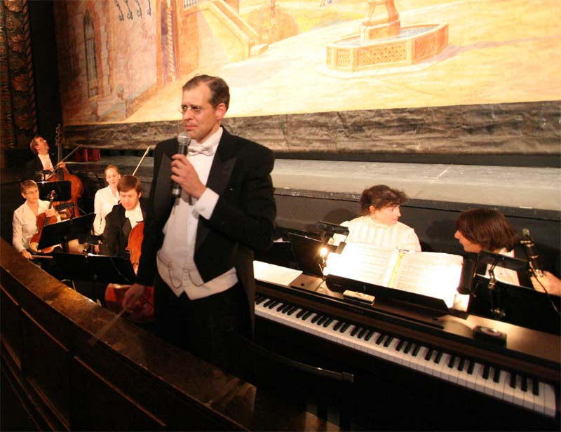 Rick Benjamin and the Paragon Ragtime Orchestra perform at the Poncan Theatre in Ponca City Oklahoma on October 4, 2008. Attribution and a photo credit for this photo must be provided to Hugh Pickens and a link to Hugh Pickens